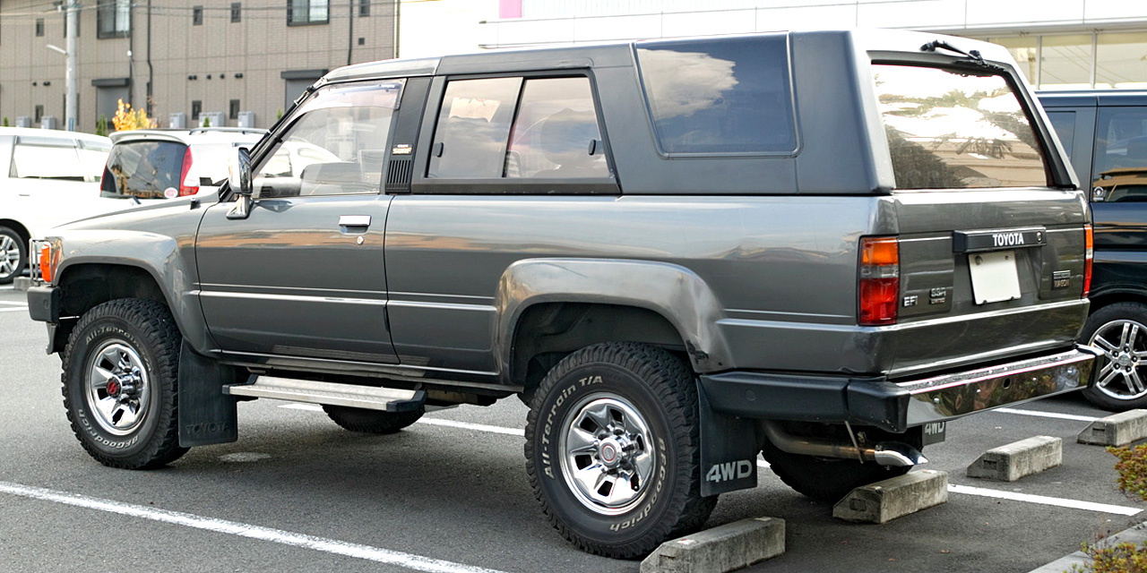 Toyota Hilux Surf Wagon 2.0 SSR Limited